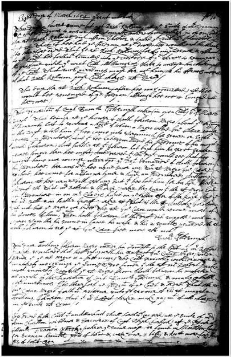 Handwritten court ruling. Courtesy of Library of Virginia. Can be found in Northampton County Deeds, Wills, Etc., March 8, 1654/5, 7 (1655–1668), fol. 10.